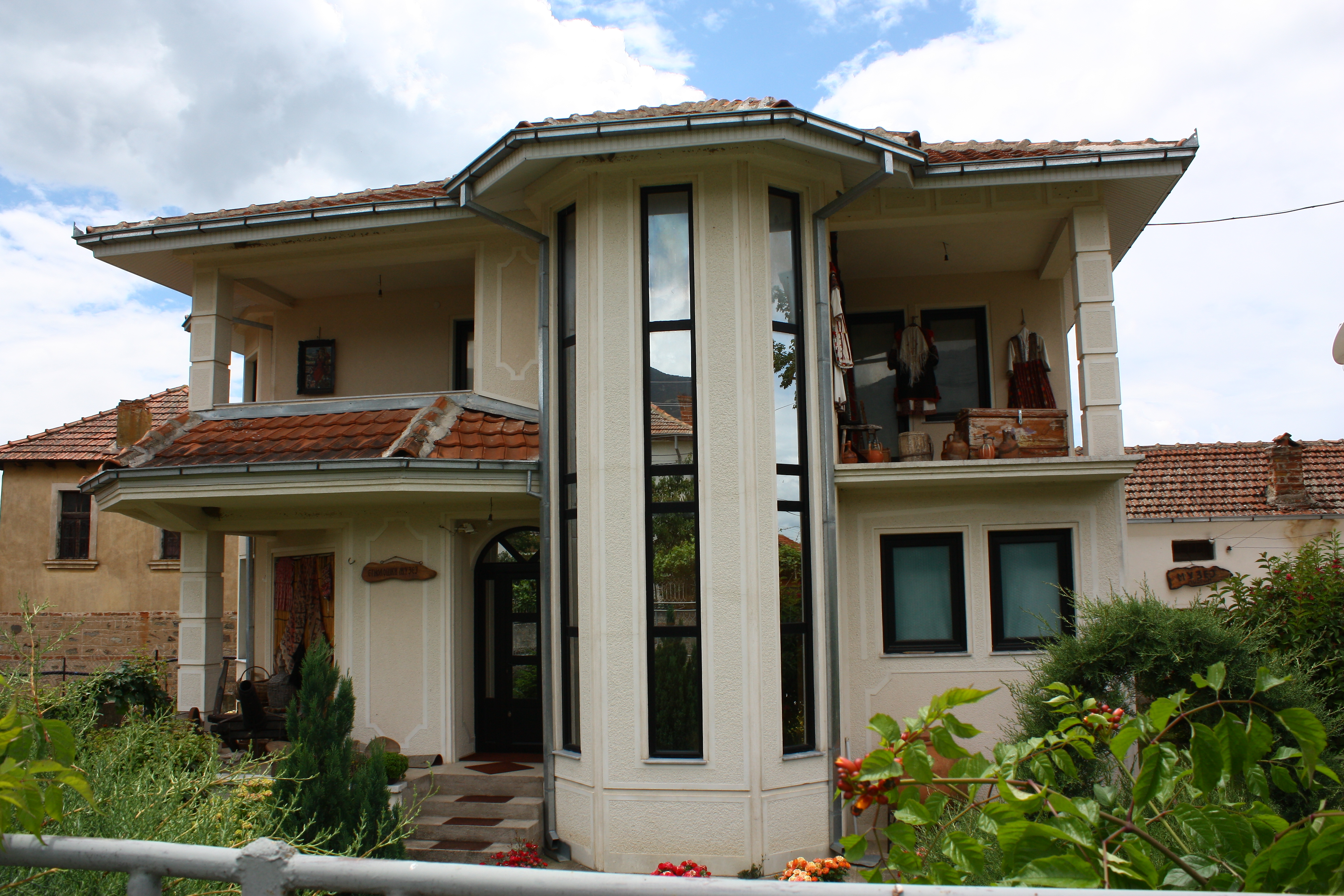 Ethnological Museum in Podmočani, Macedonia